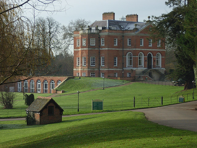 Harleyford Manor 18th century house. The estate is now stages events and provides leisure facilities such as a golf course.